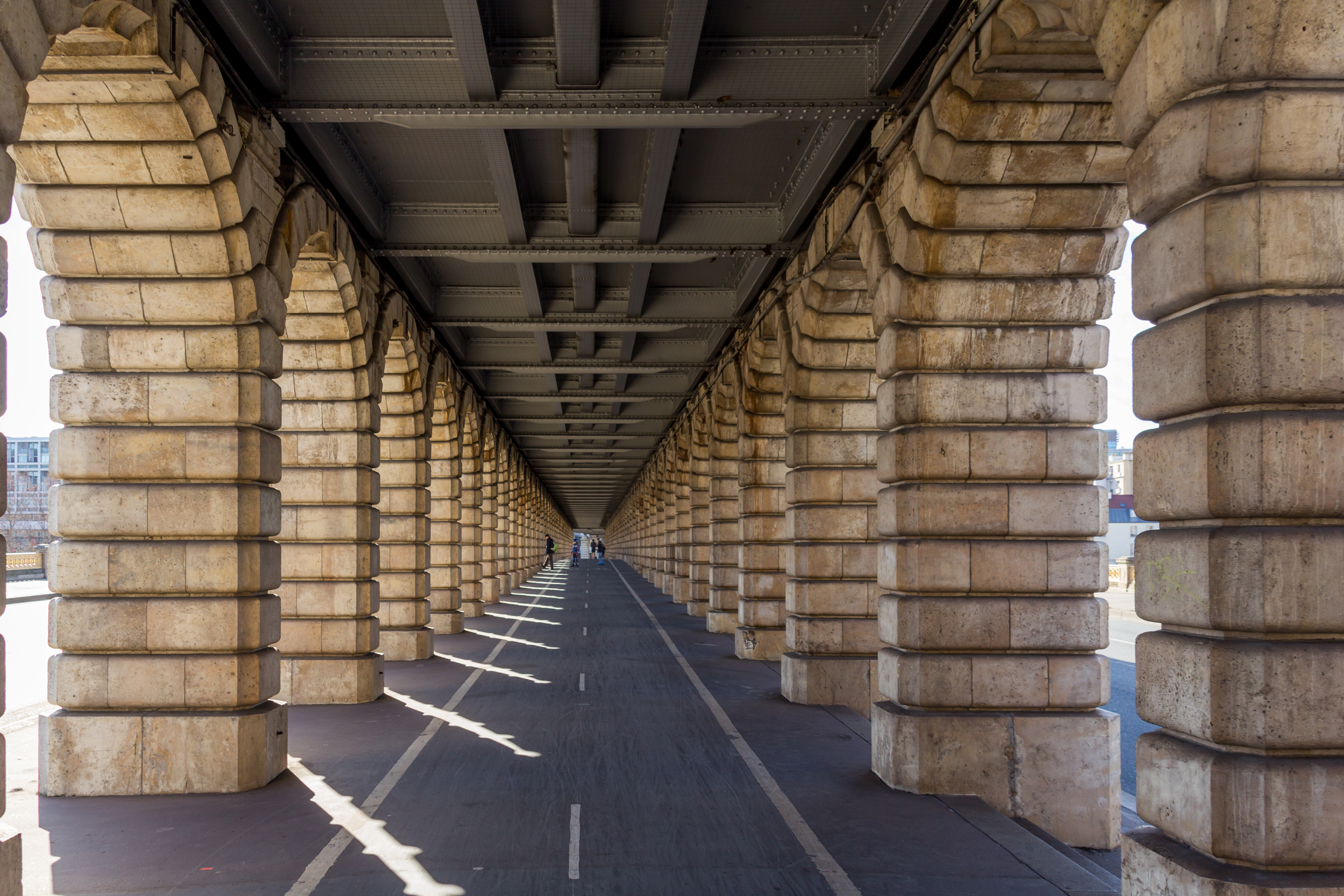 Pont de Bercy, Paris